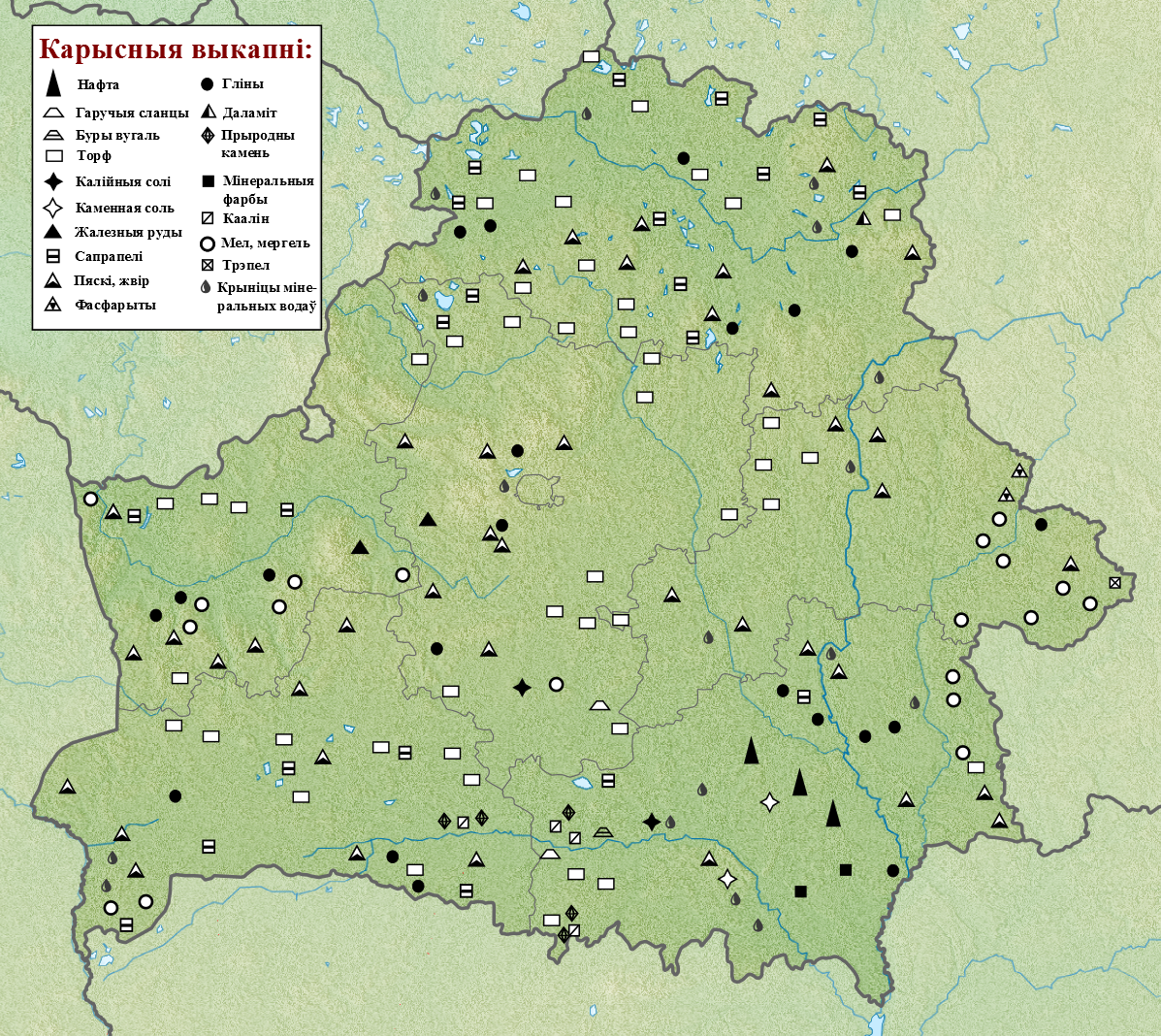 Map of the mineral deposits of Belarus